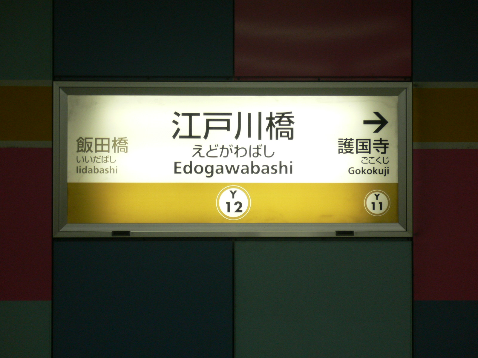 Edogawabashi Station (江戸川橋駅), Bunkyo W, Tokyo M.